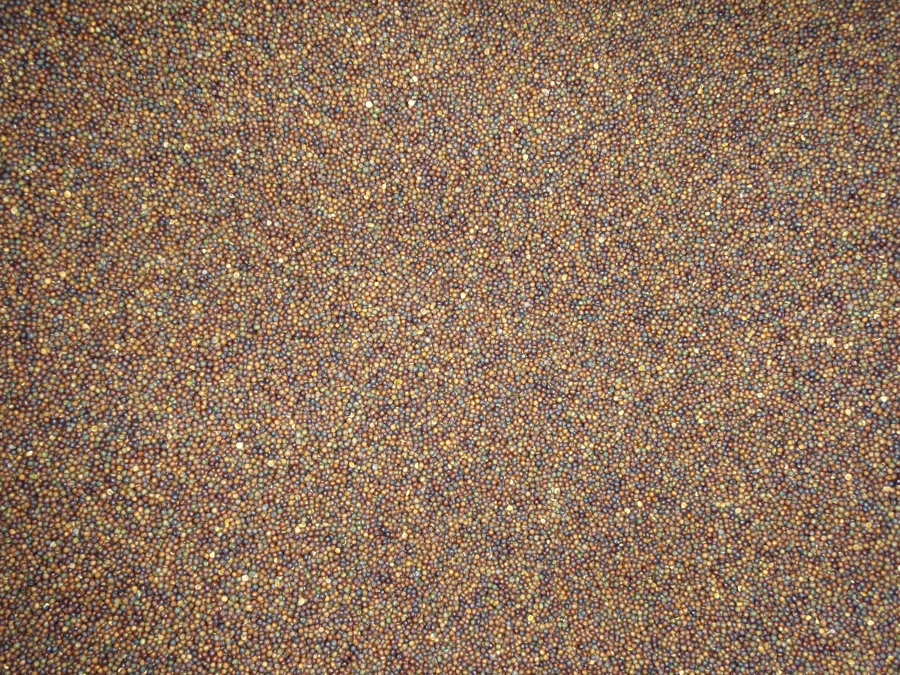 Canola seeds on display in an agricultural display at Stampede Park, Calgary, Alberta, Canada.